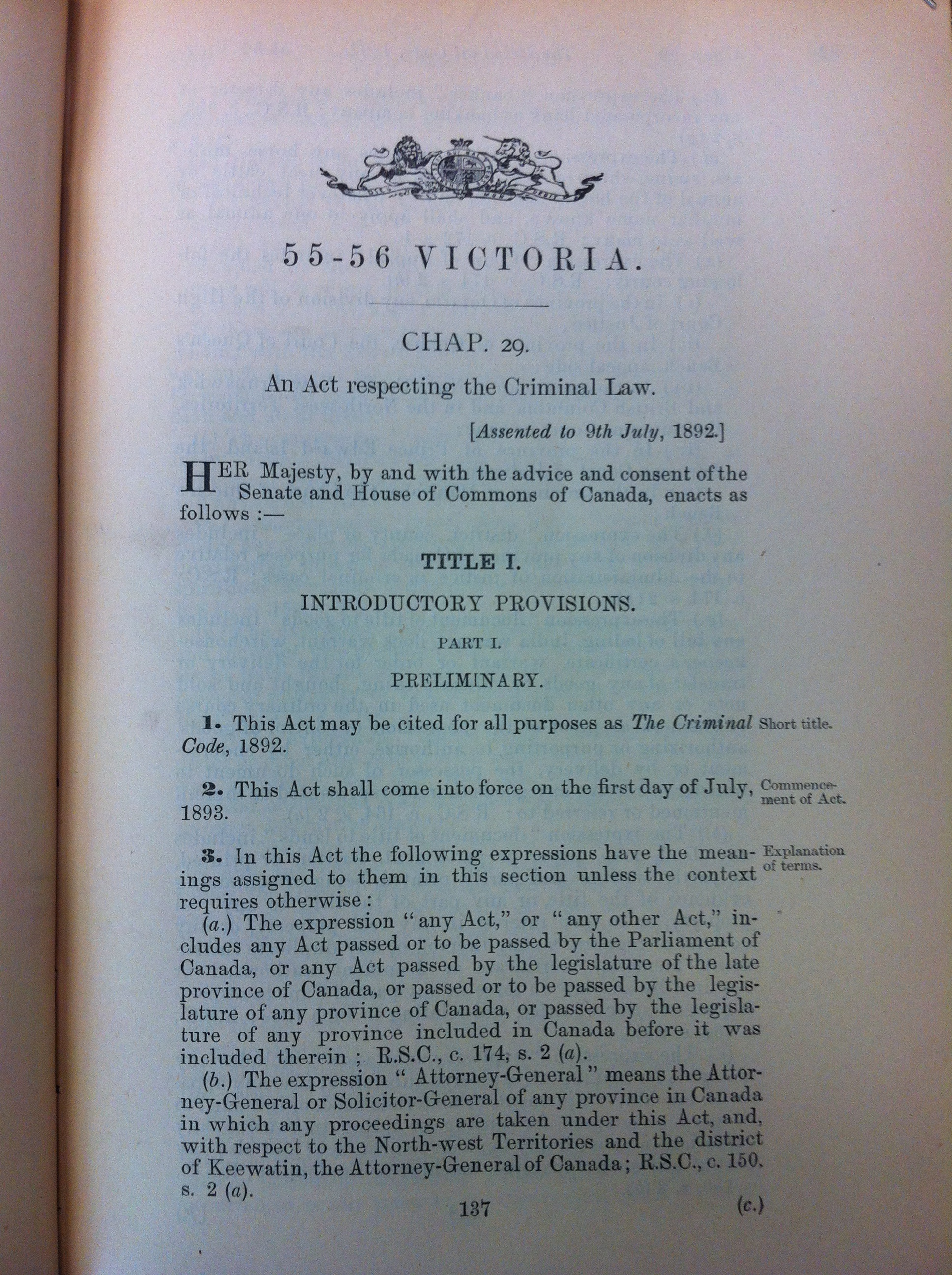 Picture of the first page of the Criminal Code, Statutes of Canada 1892, c. 29